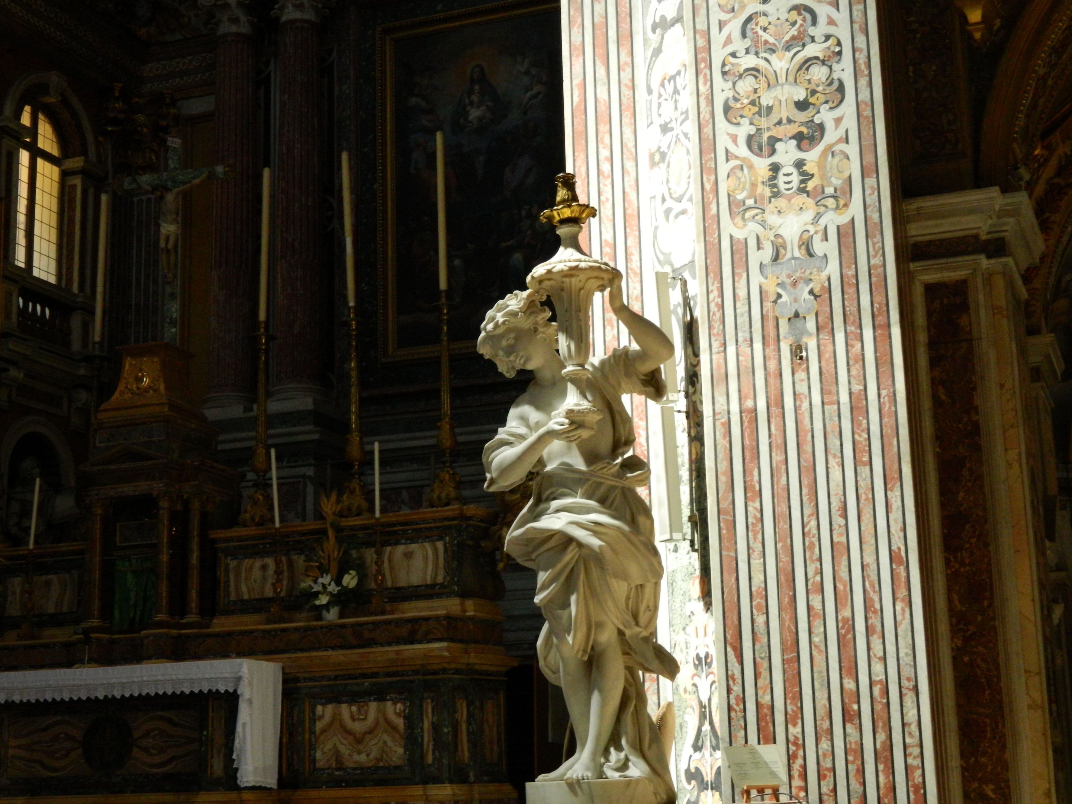 Giuseppe Sanmartino, Angeli reggi fiaccola (dx) - Sculture in marmo (1787). Chiesa dei Girolamini (Napoli)